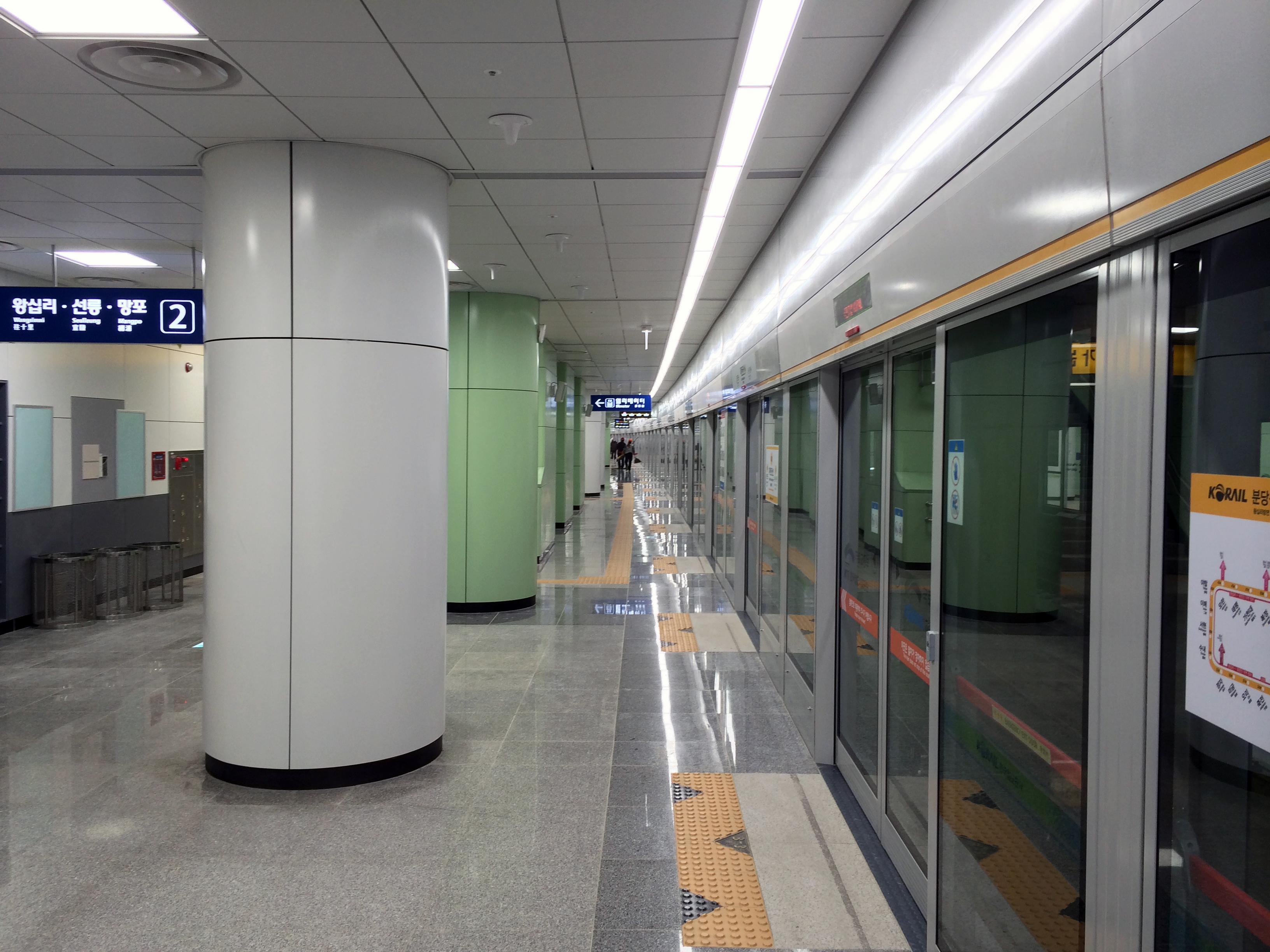 Platform of MaetanGwonseon Station